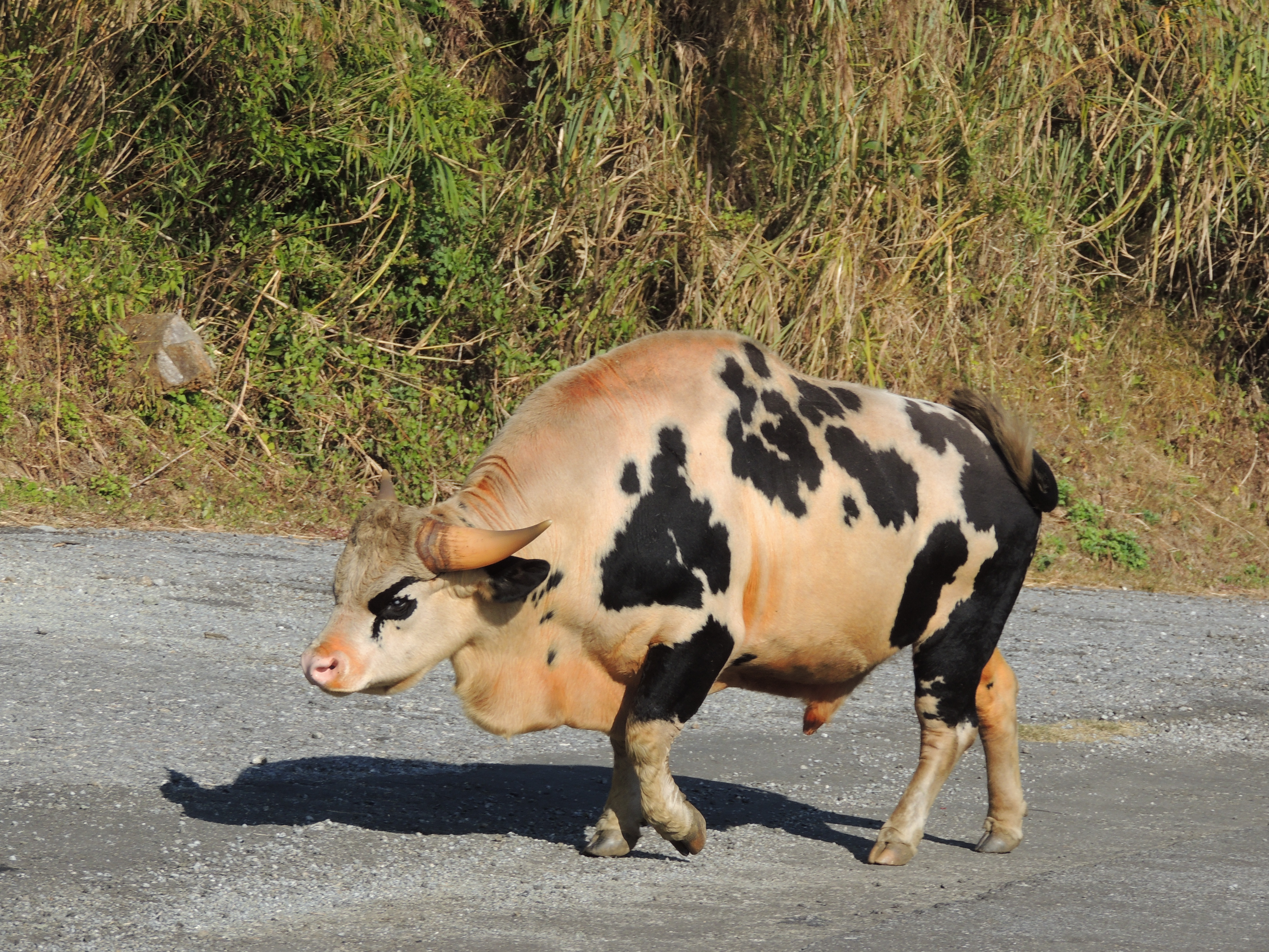 Mithun bull, Mishmi hills, Arunachal Pradesh, December 2012.